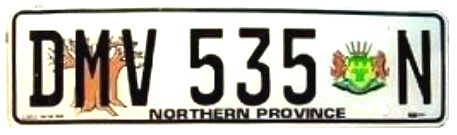 South Africa Limpopo province 1995 license plate